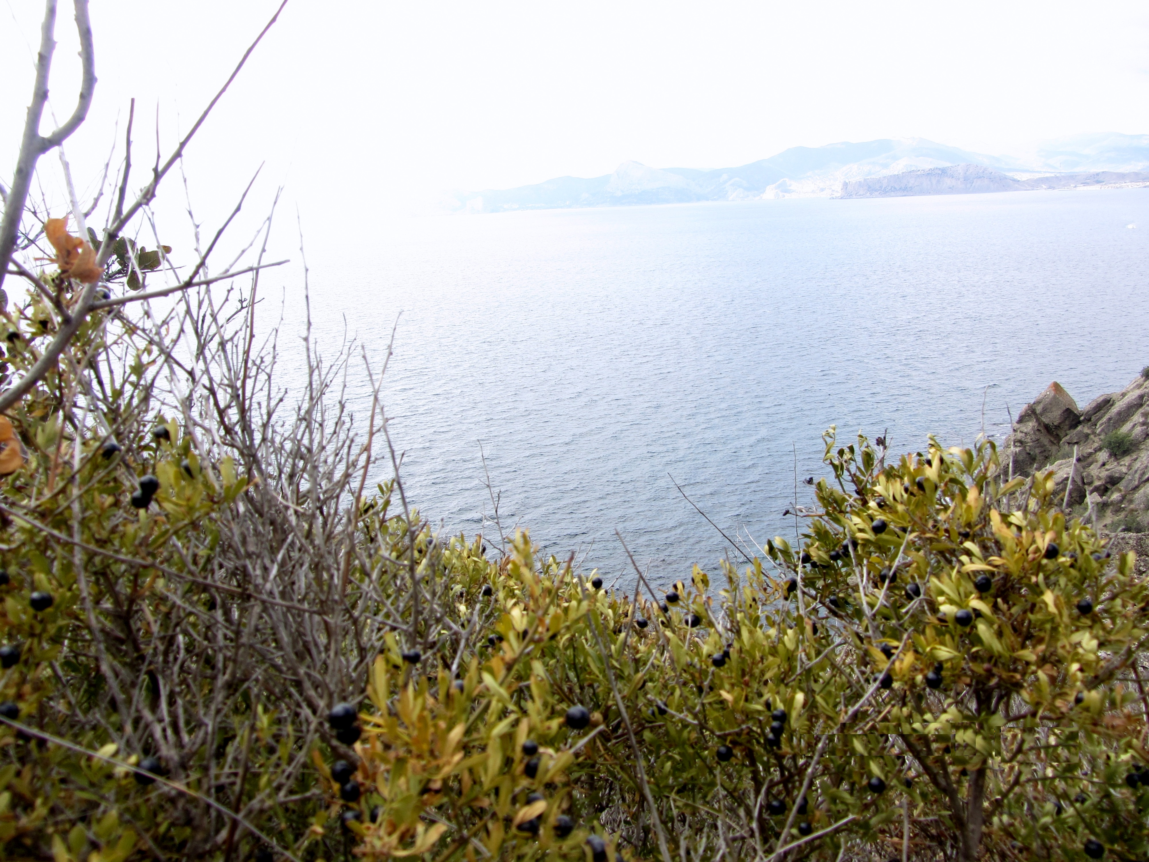 Photo by Mehrdad Mirsanjari PDN, 2013